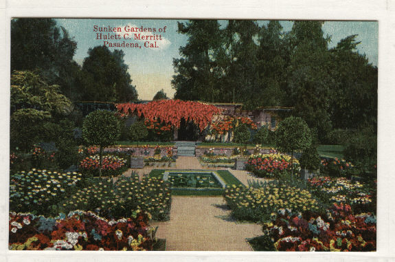 Post card photo of Hulett C Merritt's sunken gardens in Pasadena